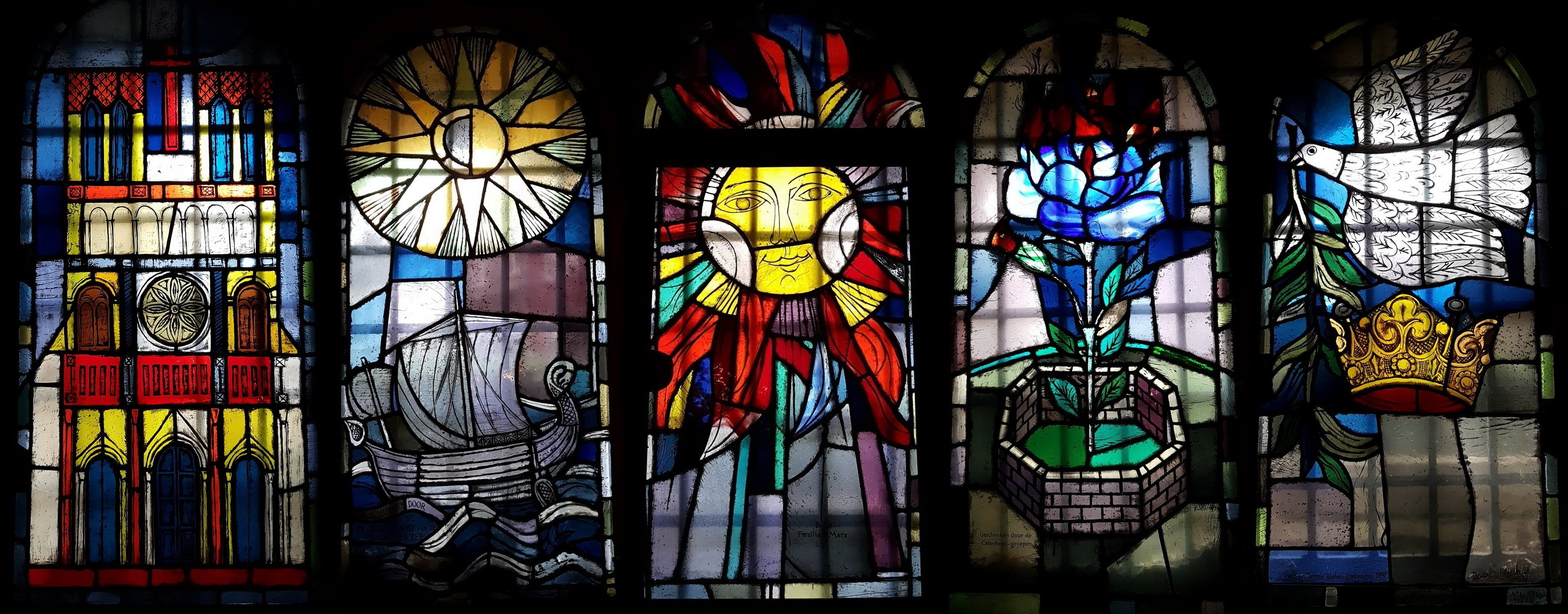 Montage of five stained-glass windows in the east crypt of the Basilica of Our Lady in Maastricht, Netherlands. These windows of 1987 by Daan Wildschut depict titles of the Virgin Mary from the Loreto Litany. From left to right: "House of gold", "Star of the sea", "Morning star", "Mystical rose" and "Queen of peace".